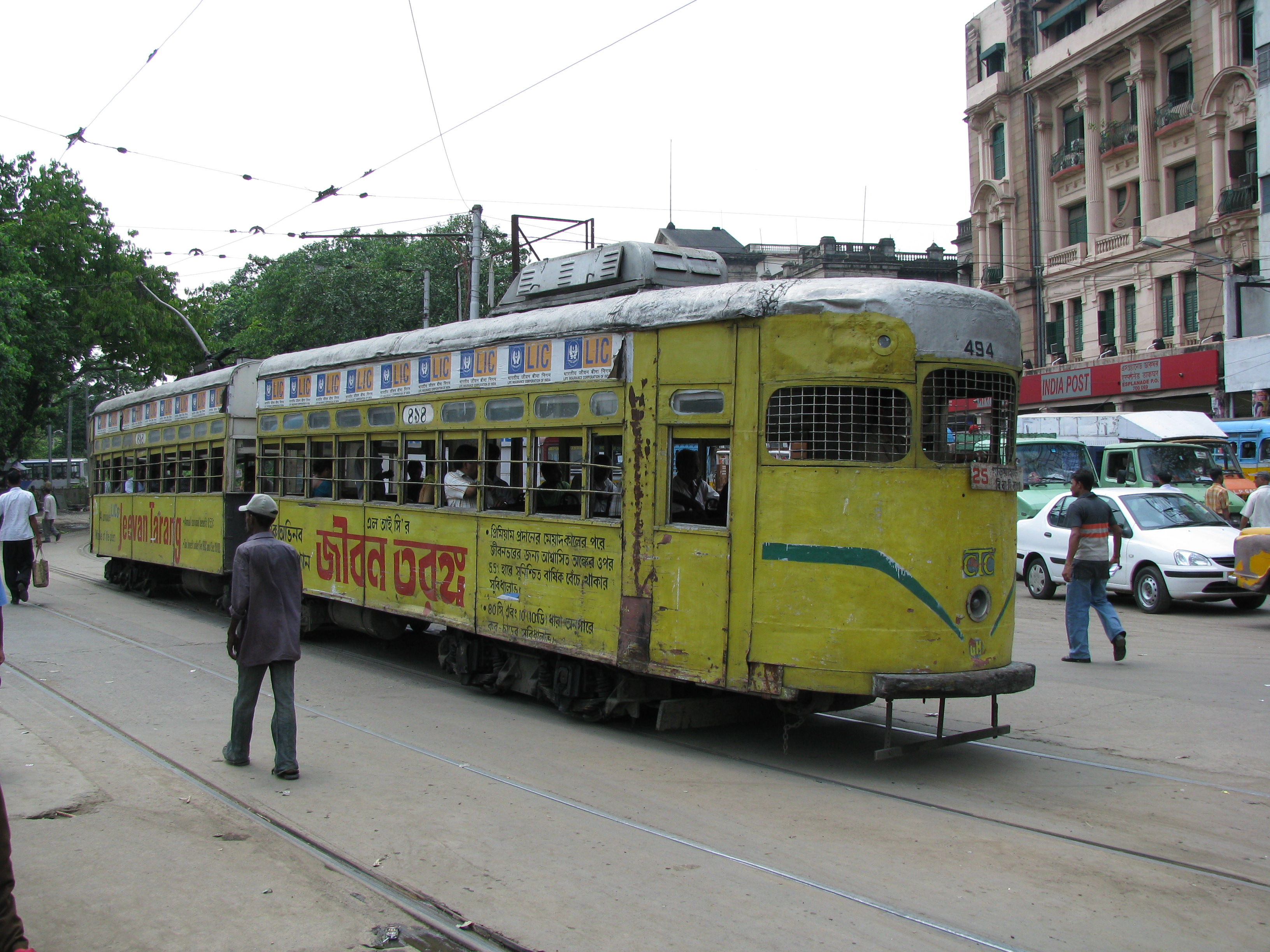 Car No. 494 of the Kolkata (Calcutta) tram system.